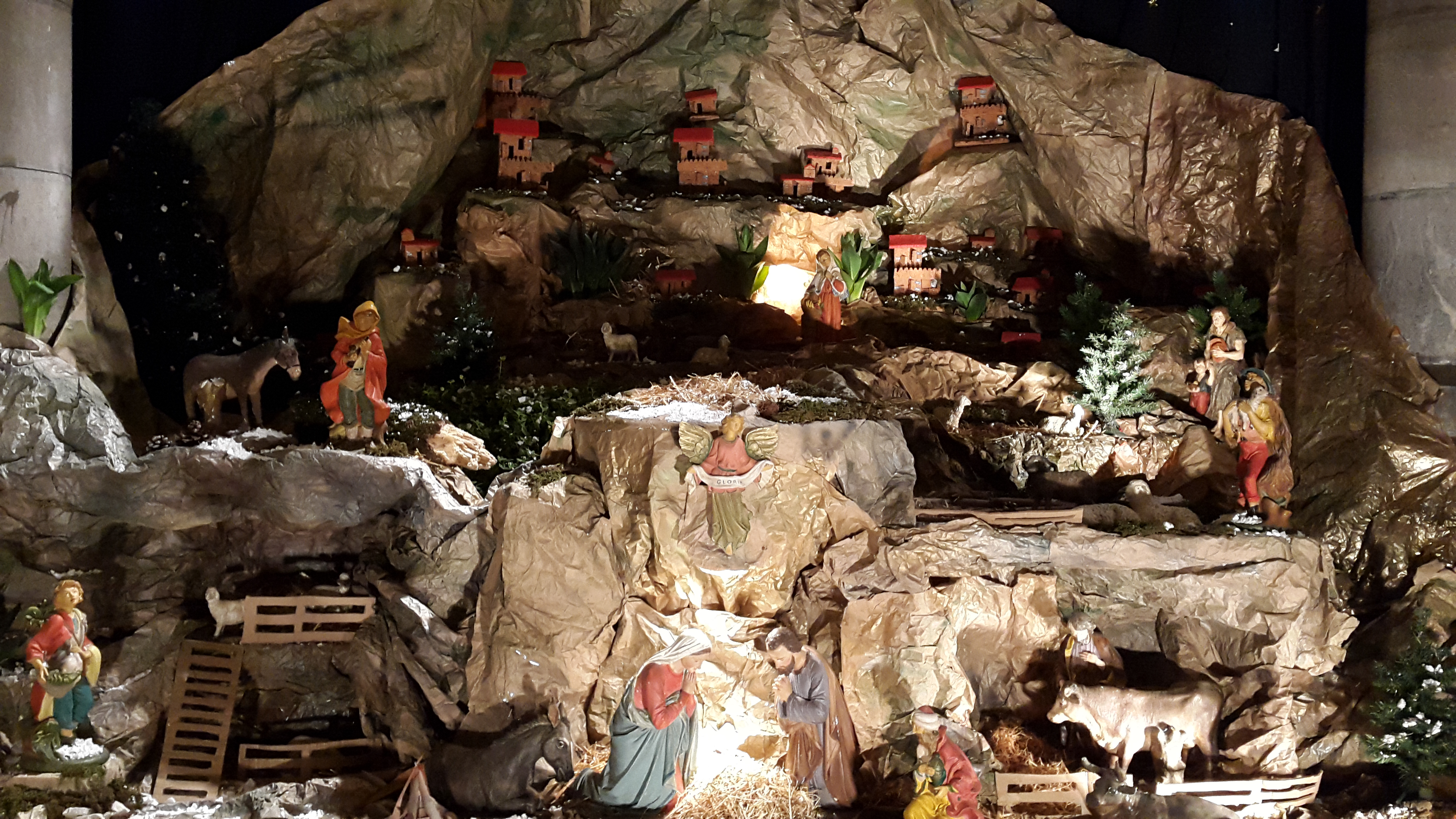 Christmas mass in Cathedral of St. Vincent de Paul in Tunis: The manger without baby jesus